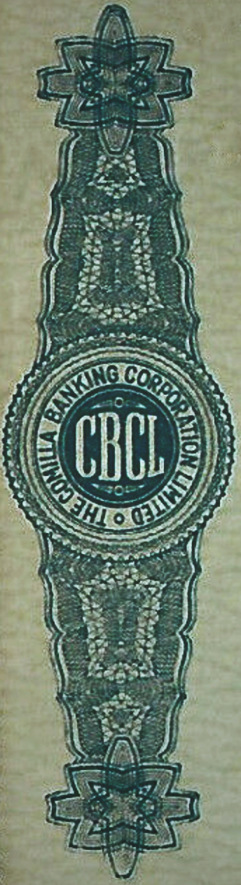 This was the official logo of the defunct Comilla Banking Corporation Limited. The Golaghat branch of The Comilla Banking Corporation Limited was established in 1937. অসমীয়া: বিলুপ্ত কুমিল্লা বেংকিং কর্পোৰেশন (নিগম) ৰ অধিকাৰিক প্ৰতিক চিন। কুমিল্লা বেংকিং কর্পোৰেশন (নিগম) ৰ গোলাঘাট শাখা ১৯৩৭ চনত প্ৰতিষ্ঠা কৰা হৈছিল।